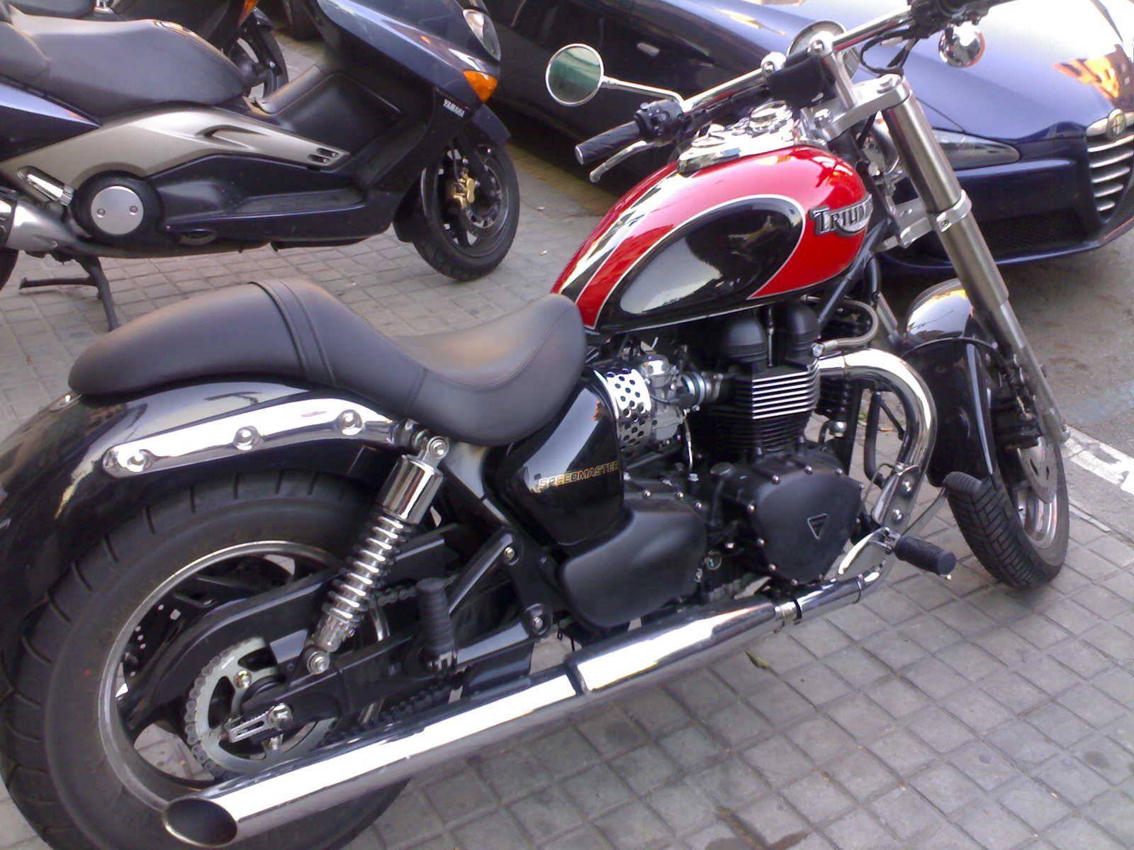 Triumph Bonneville Speedmaster